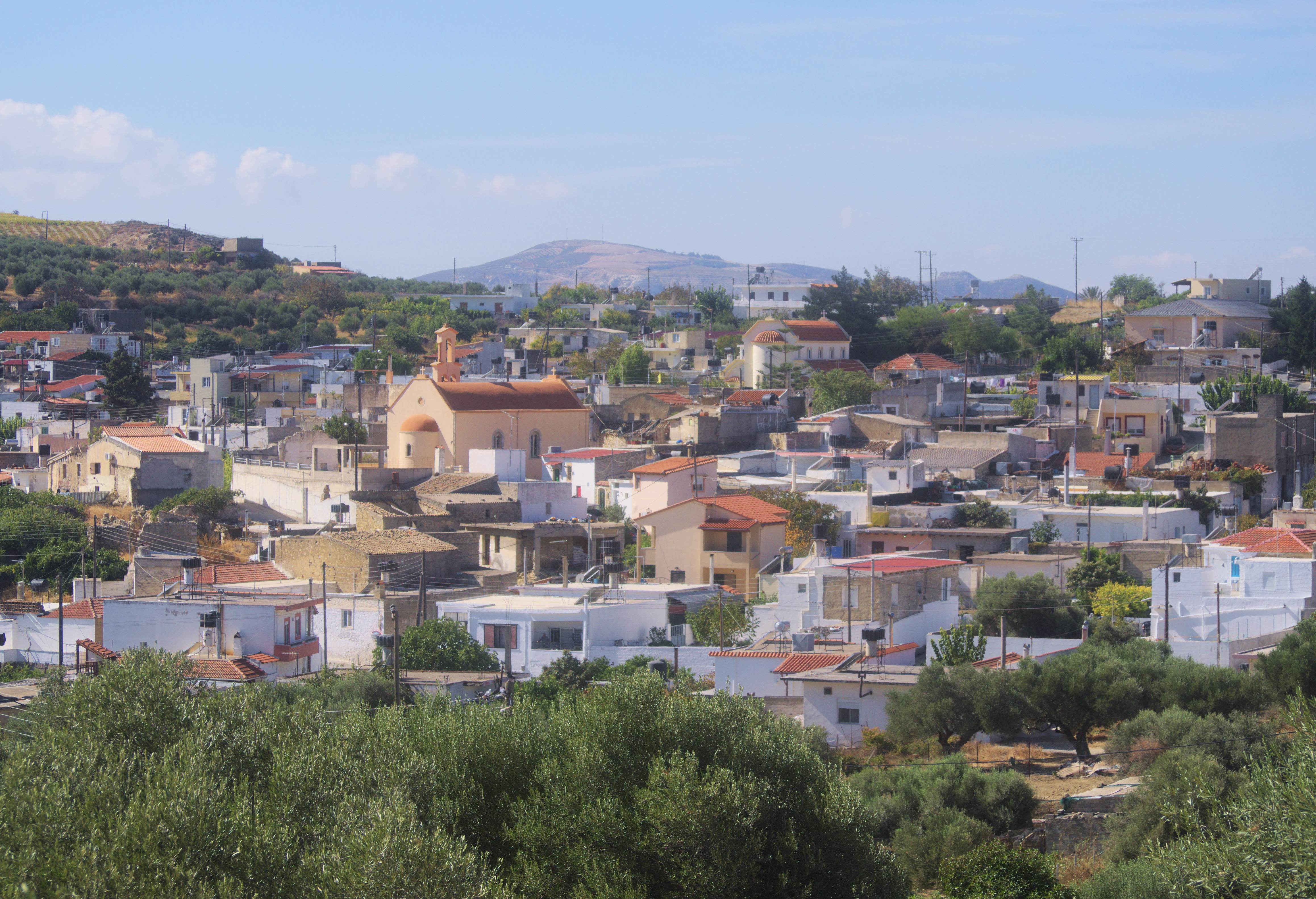 View of Partira, Crete, from NE.